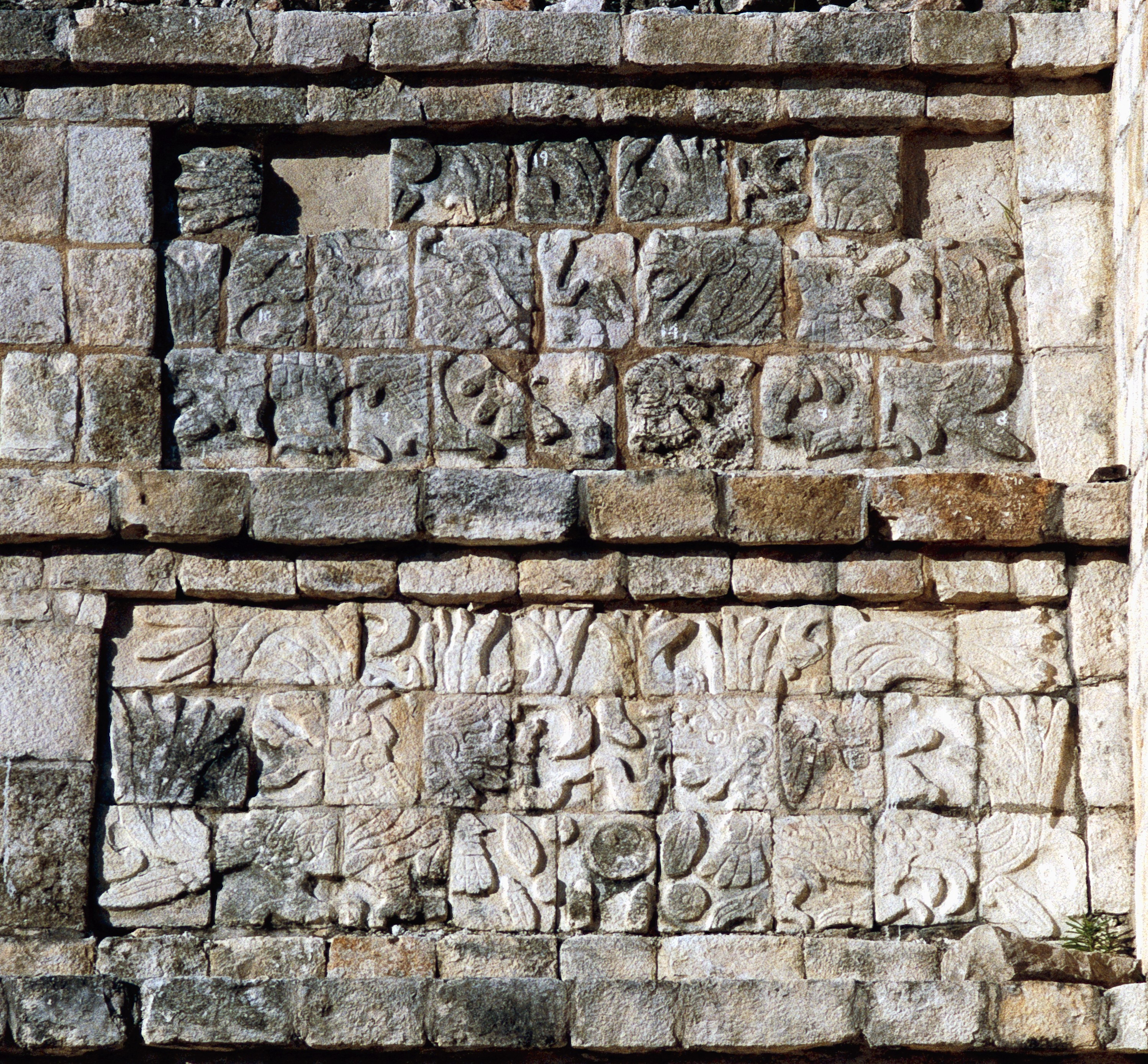 Chichen Itza, Yucatan, Mexico: Osario, panel